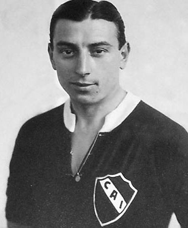 Raimundo Orsi as an Inependiente player